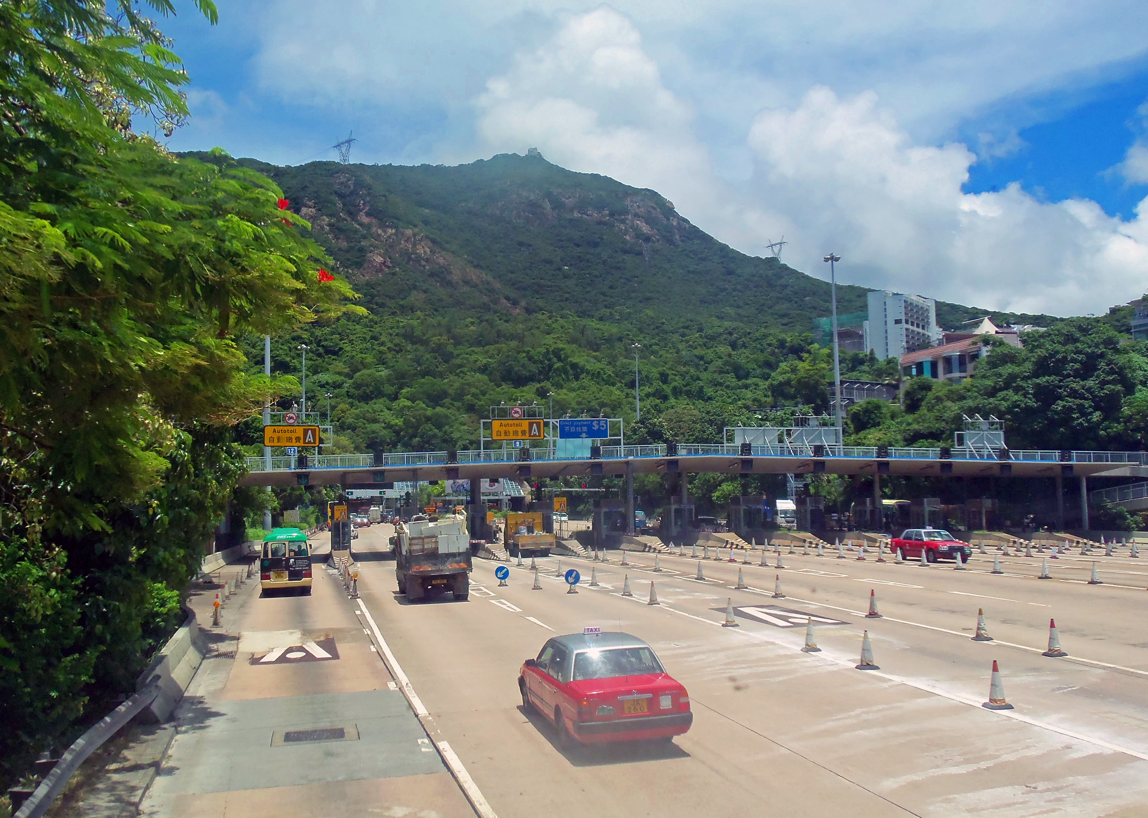 View from #260 bus of toll plaza on Route 1 south of Aberdeen Tunnel